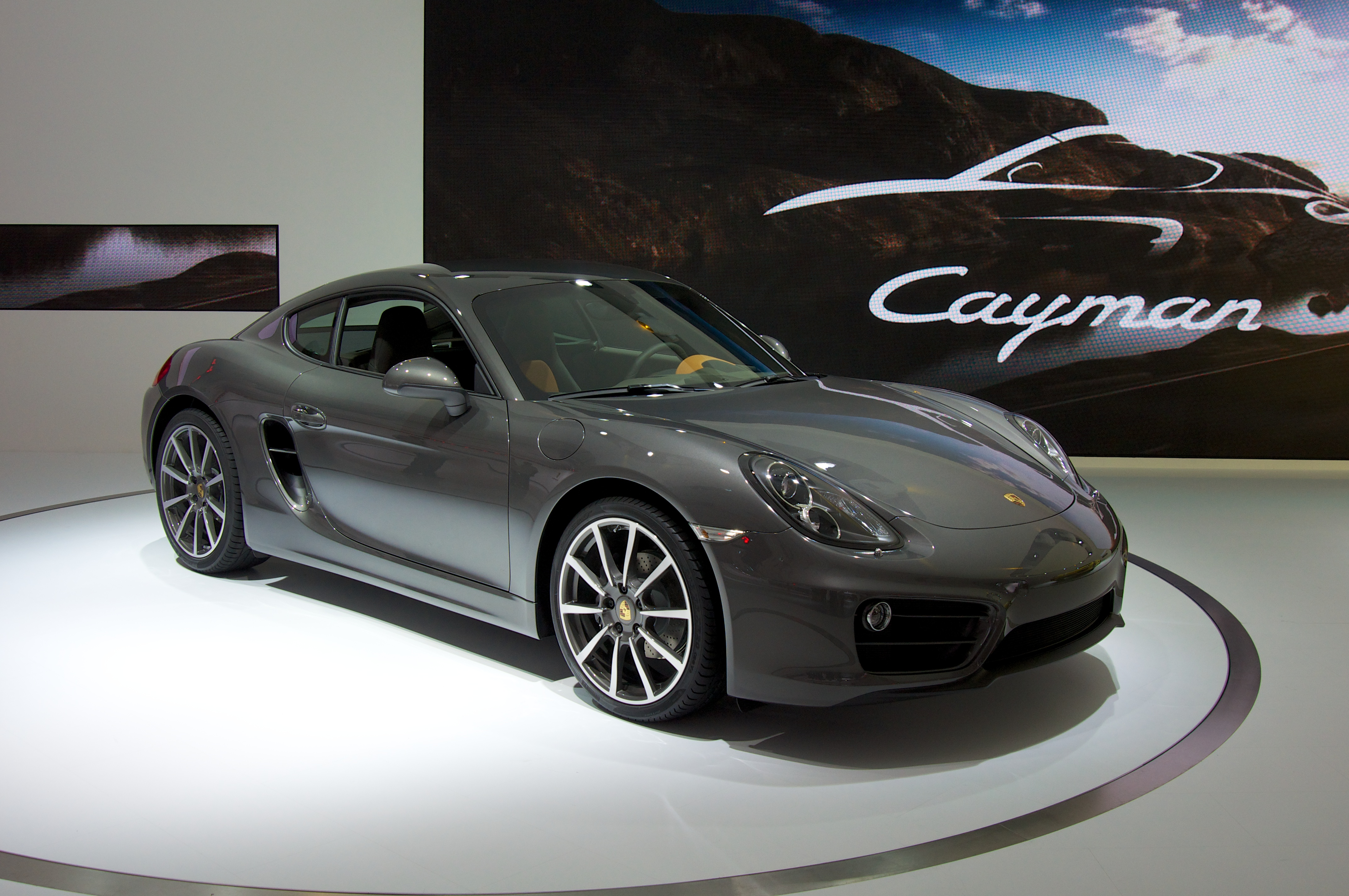 Seen at the 2012 Los Angeles Auto Show. Press day - Wednesday, November 28th. If you use one of my photos, please be so kind as to attribute me and link back to the photo's page. THANK YOU!